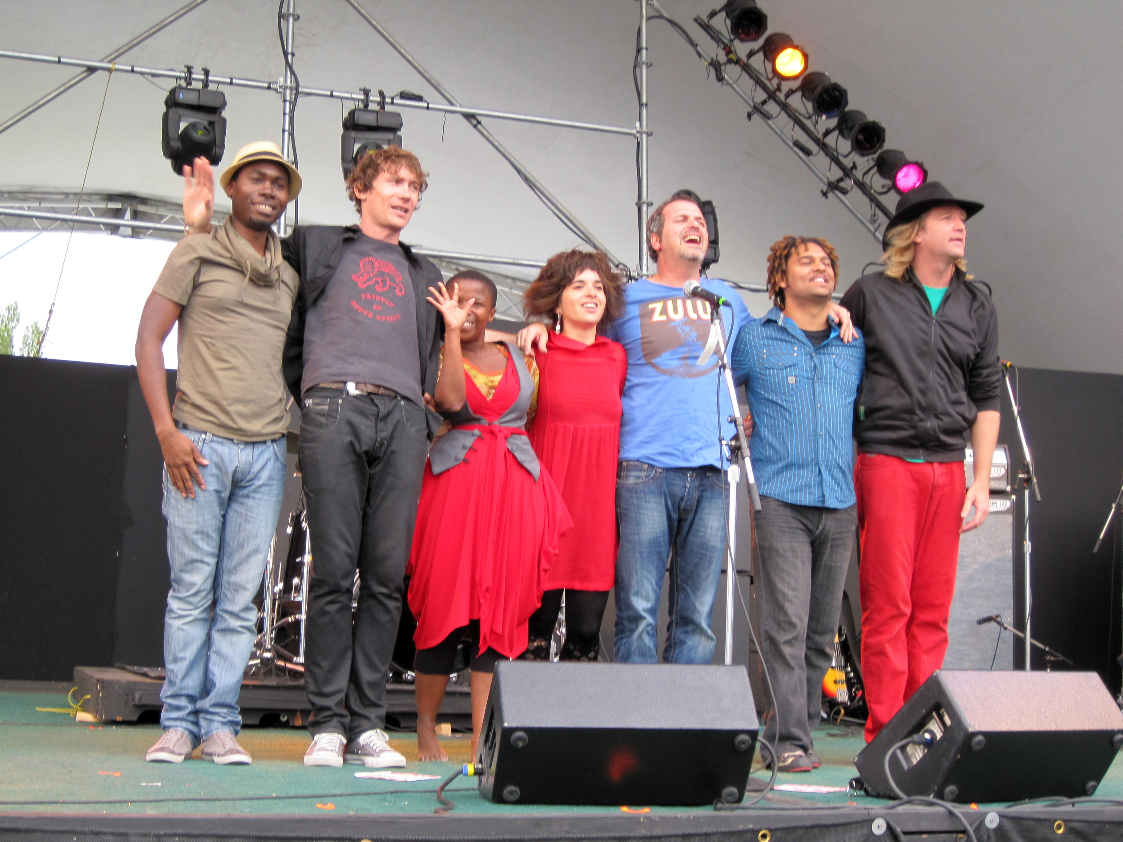 Freshlyground (from Capetown)